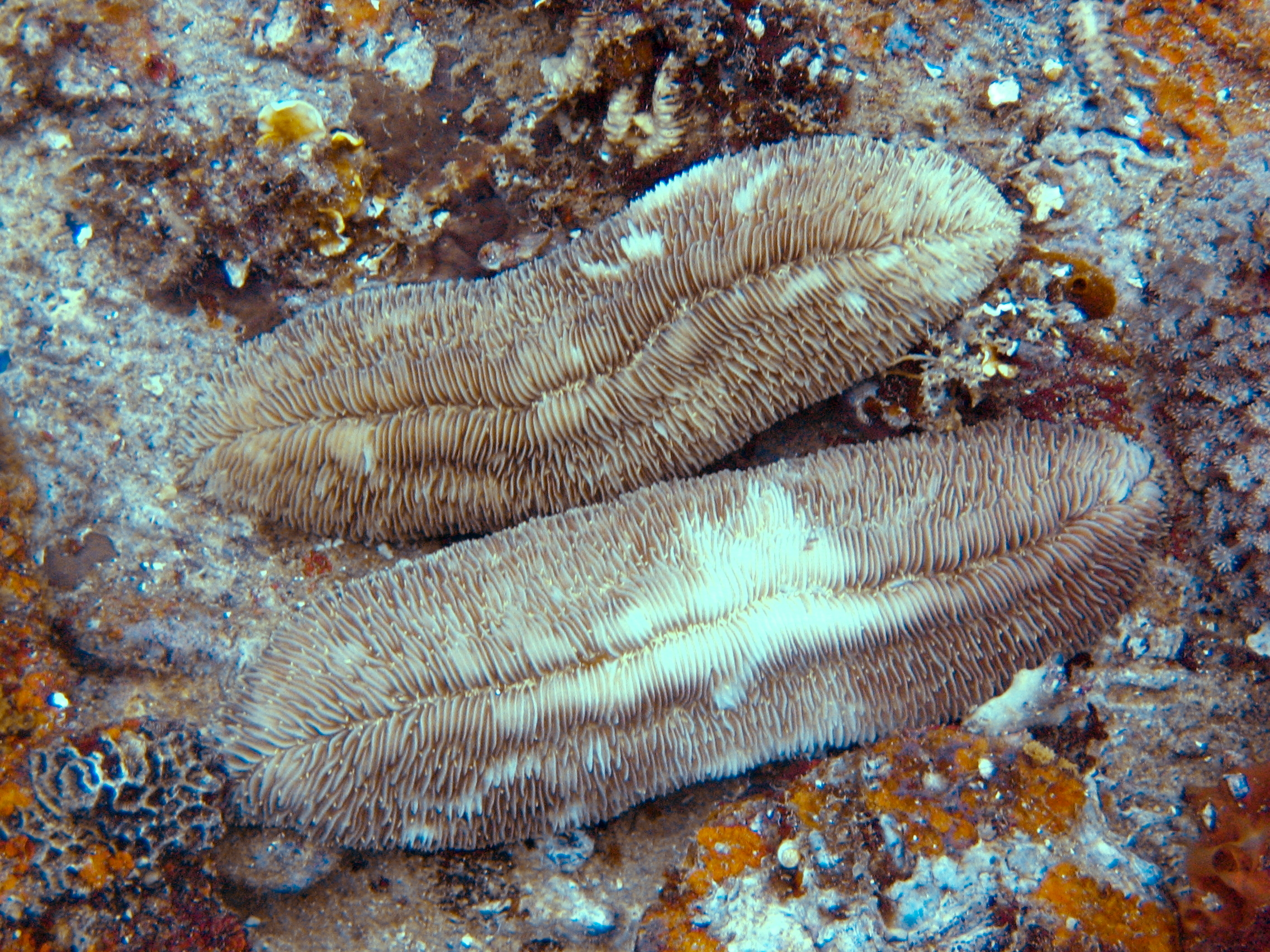 Mushroom coral (Herpolitha limax) Image ID: reef0567, NOAA's Coral Kingdom Collection Location: Chuuk, Federated States of Micronesia